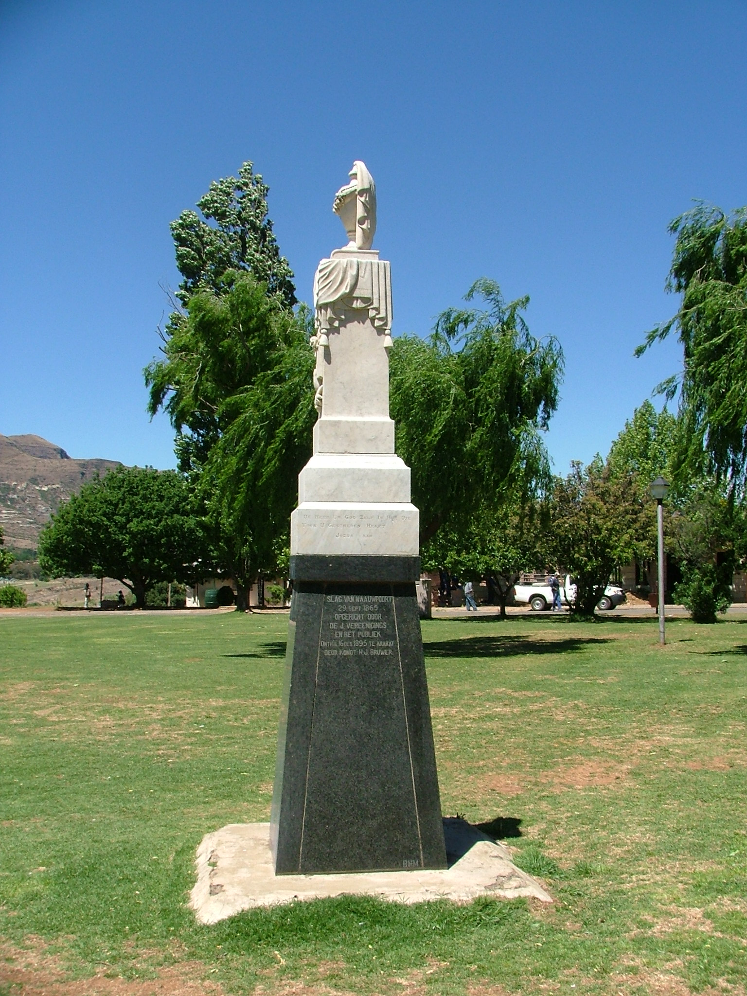 I (BoonDock (talk) 14:57, 20 October 2011 (UTC)) took this photo of the Naauwpoort Monument in Clarens